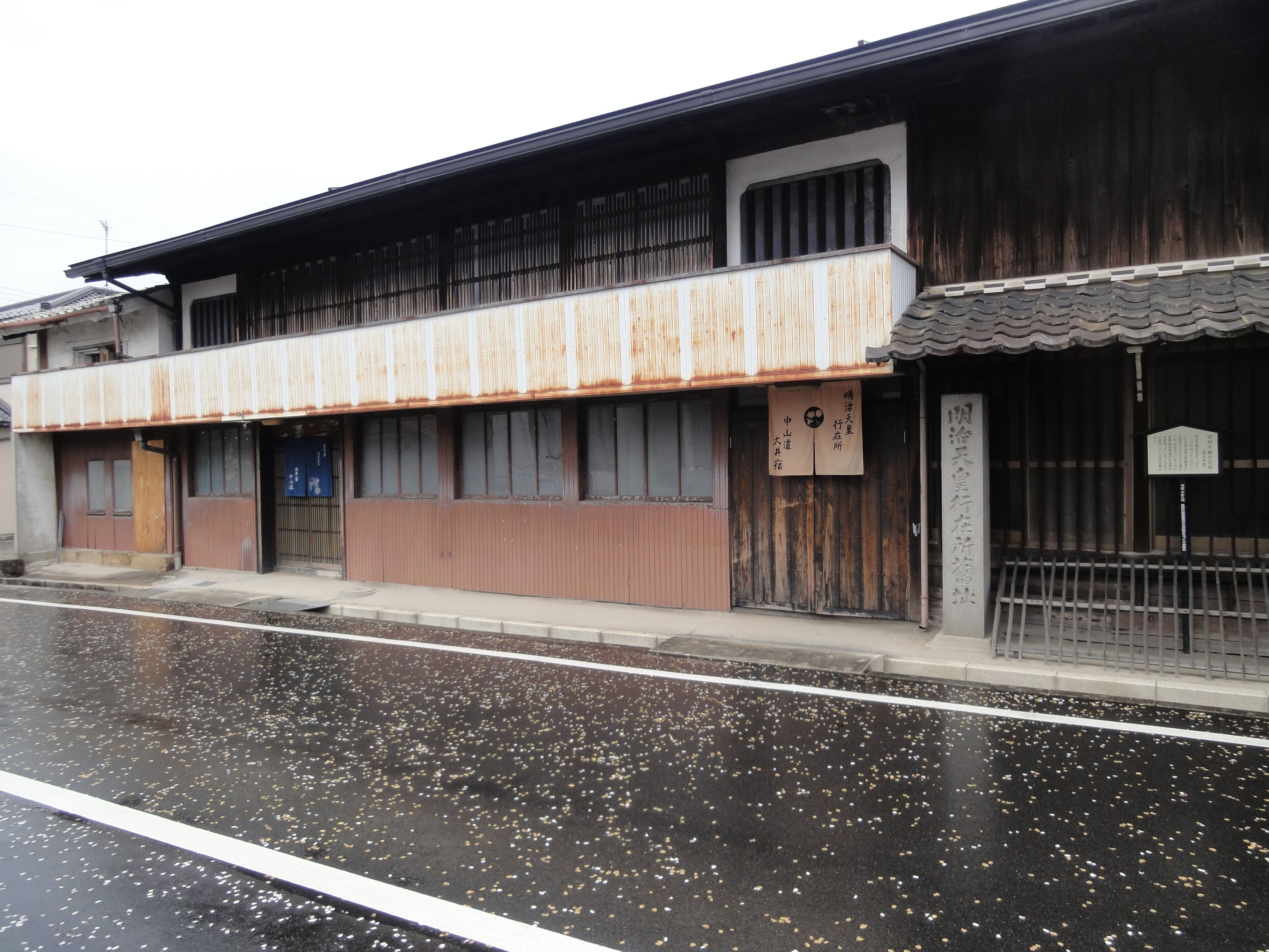 Temporary lodging built to host Emperor Meiji in 1880. Preserved as a museum.